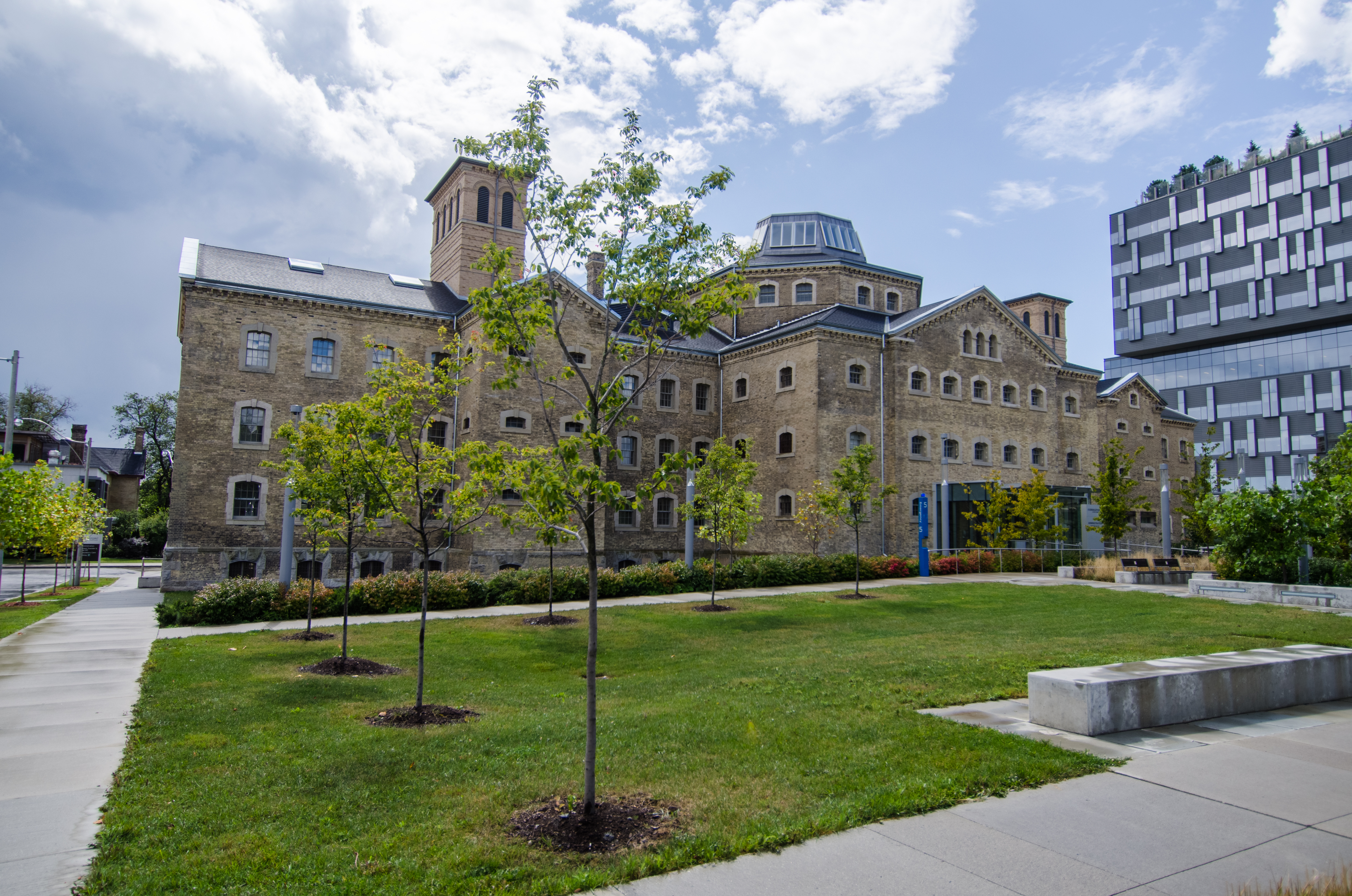 Seen in Orphan Black, The Handmaid's Tale, Mary Kills People, & Room.